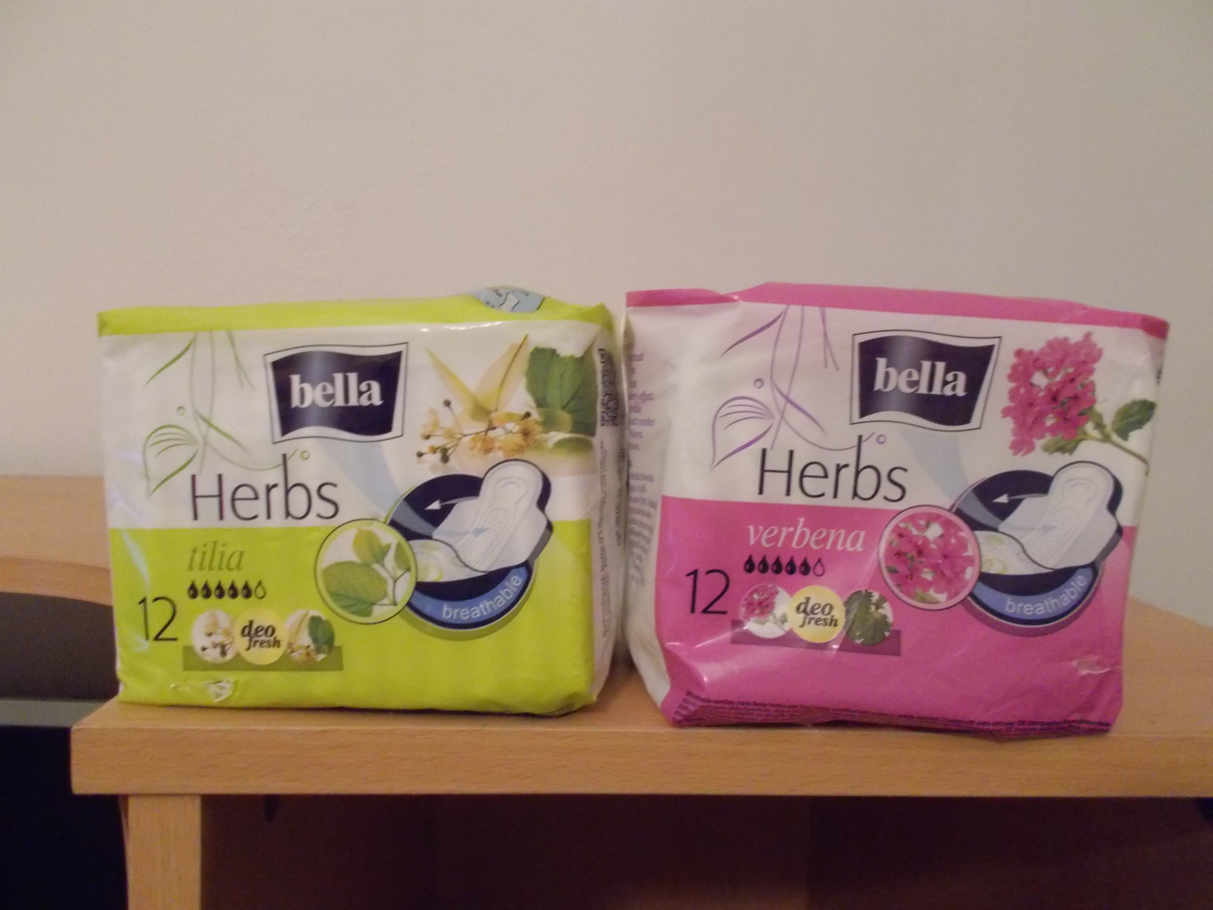 Bella Herbs maxipads